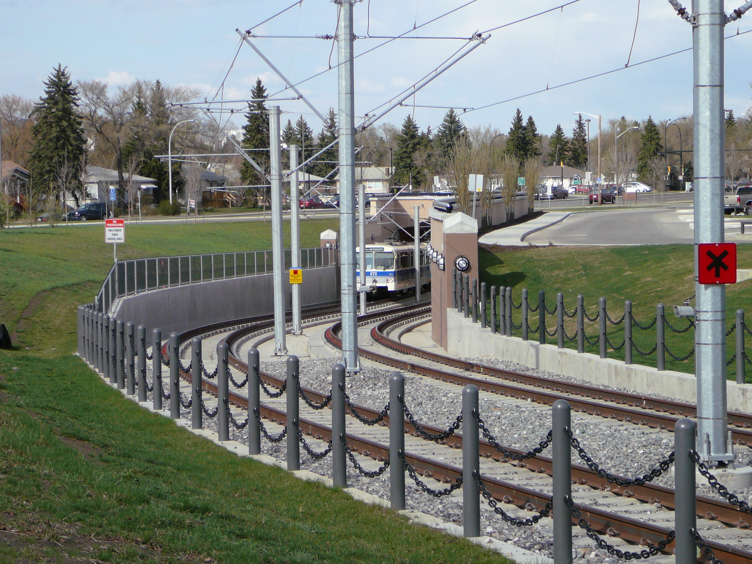 Picture of LRT train coming out of Belgravia Road underpass. This segment of the LRT line was formally opened on April 26, 2009